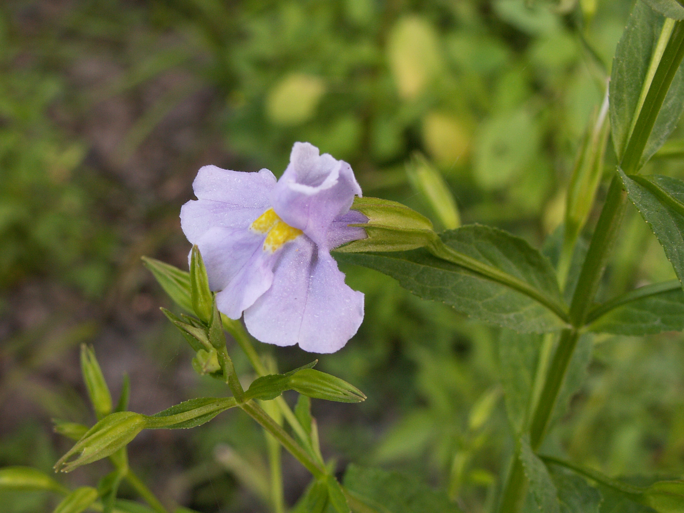 Sharp-Winged Monkey Flower (Mimulus alatus) blooming in a ditch in Cranberry Township, Butler County, Pennsylvania